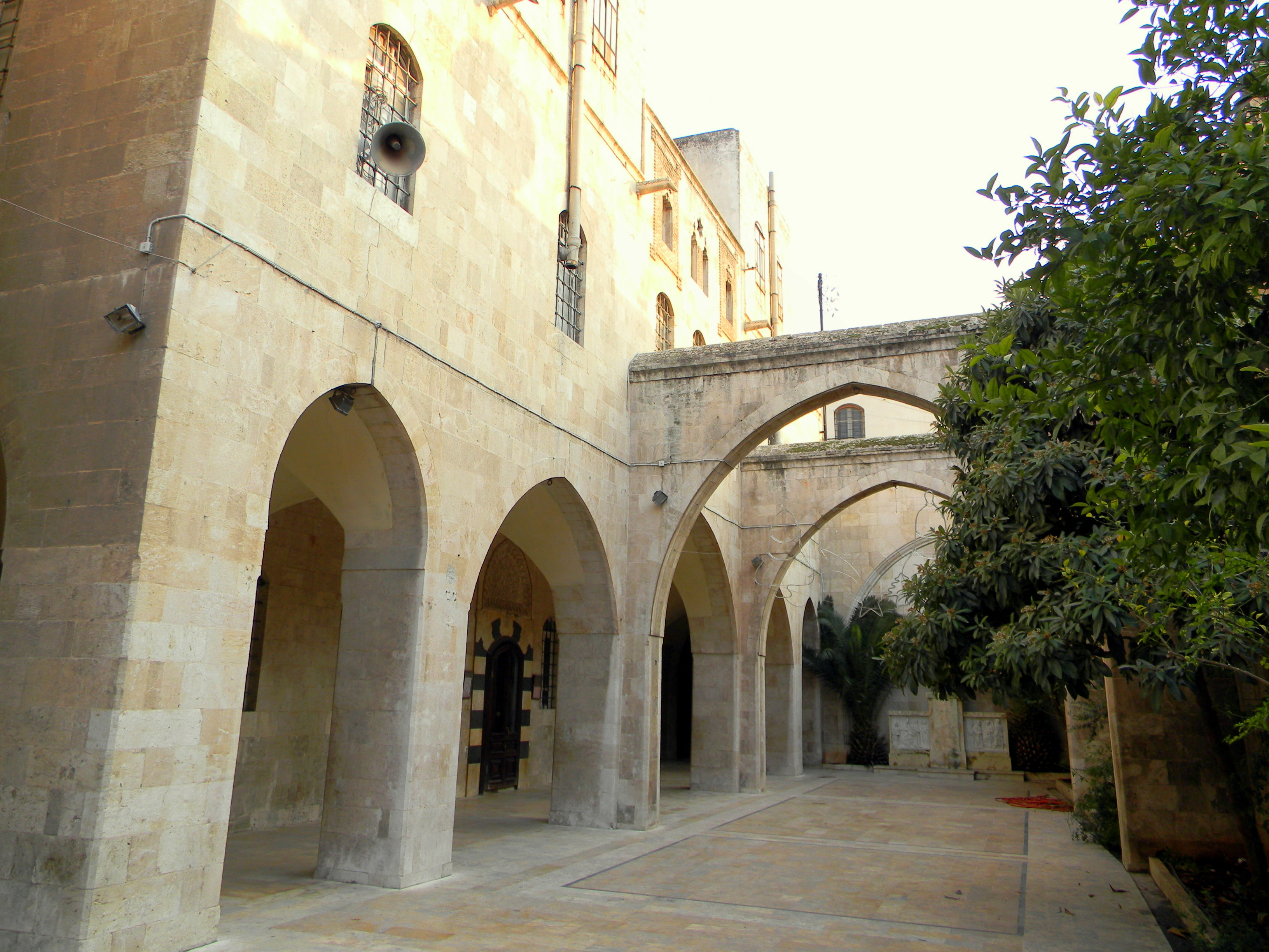 Virgin Mary Greek Catholic Cathedral of Aleppo